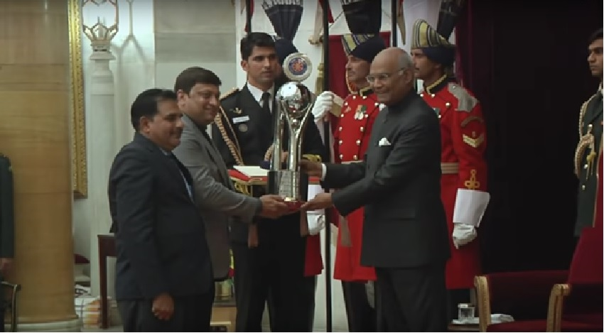 NSS